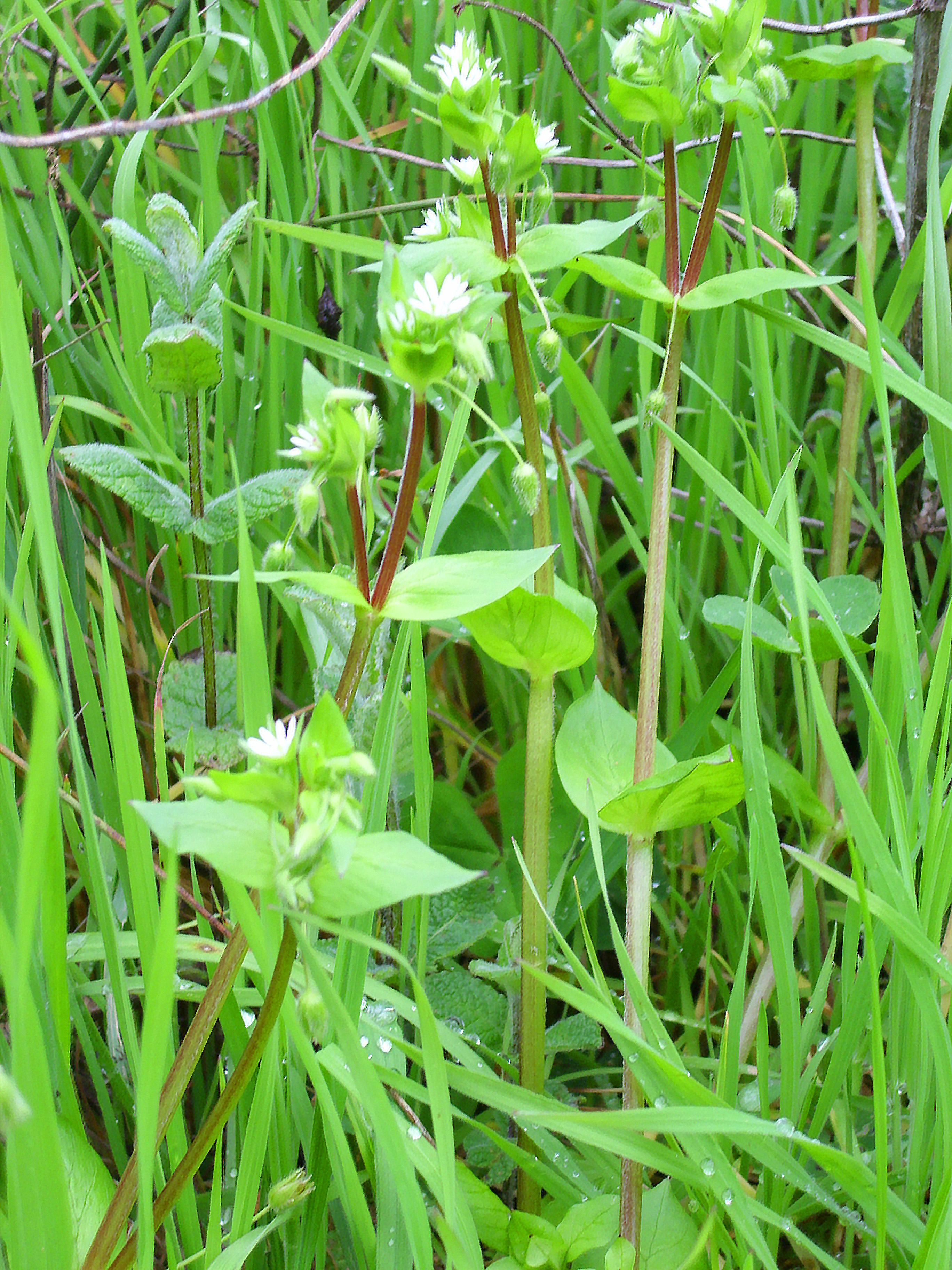 Cerastium brachypetalum habit, Sierra Madrona, Spain